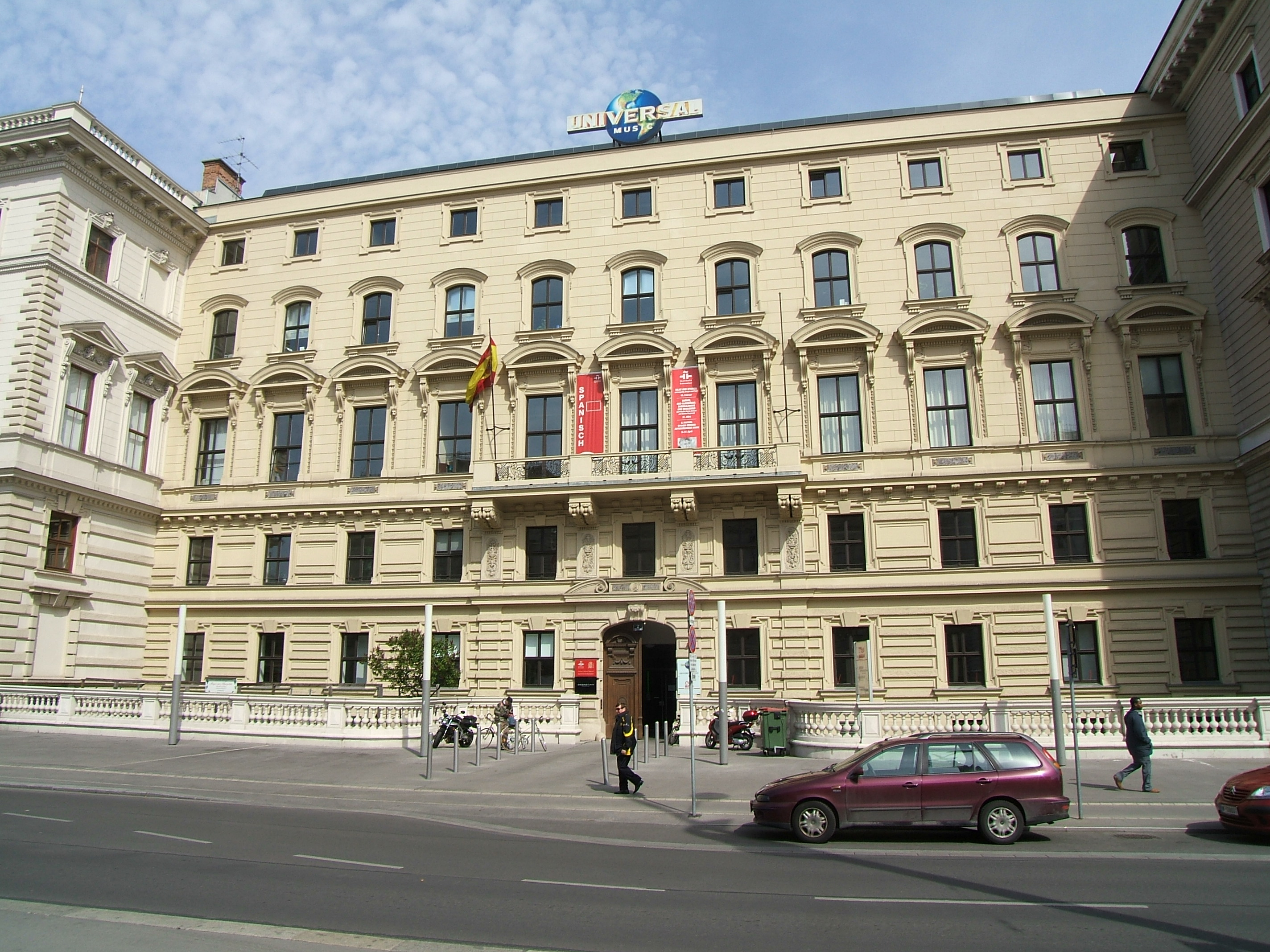 Palais Welten in Vienna 1st district Schwarzenbergplatz 2